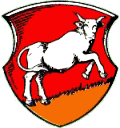 Coat of Arms of Kleinrinderfeld